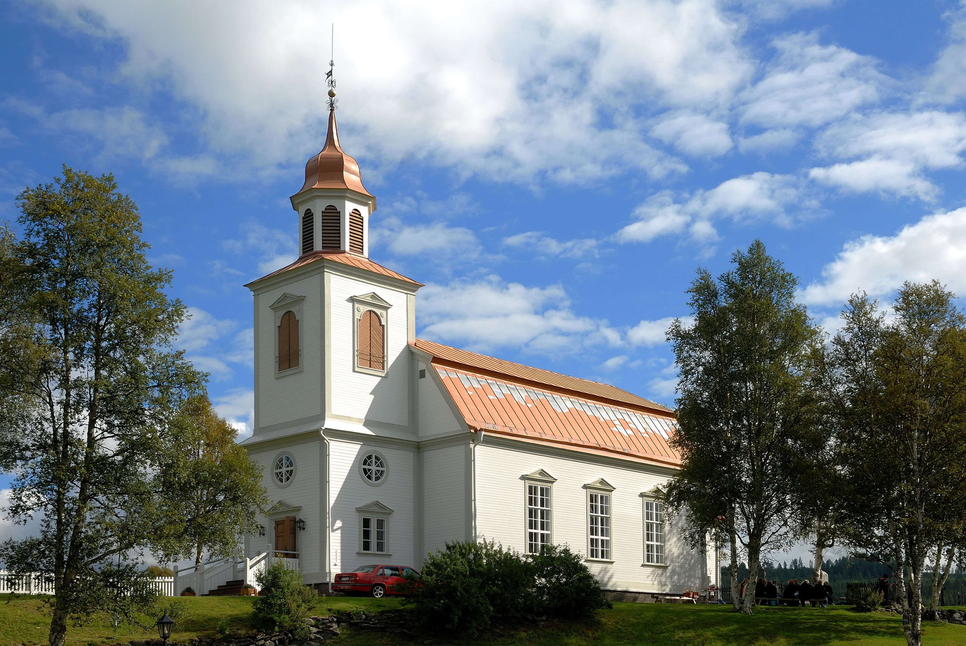 Ljusnedals kyrka (church).